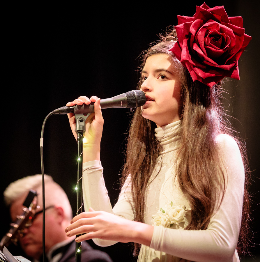 Angelina Jordan in concert with The Real Thing at Cosmopolite. The concert took place on 14. December 2017 in Oslo. Lineup:Angelina Jordan (vocal)Sigrid Brennhaug (vocal)Hermund Nygård (drums)Dave Edge (saxophone)Paul Wagnberg (organ)Staffan William-Olsson (guitar)